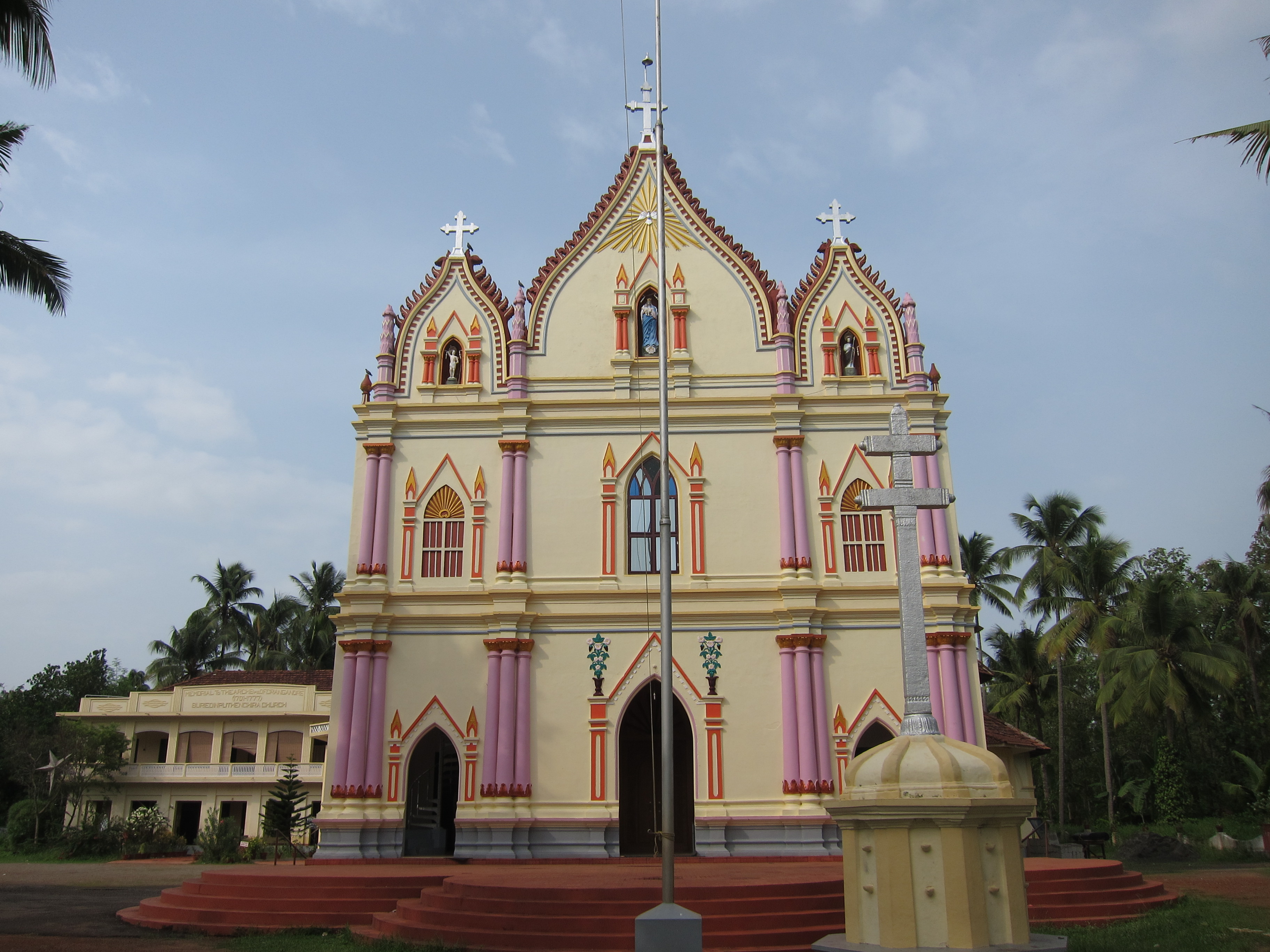 Puthenchira Forane Church St: Mary's Forane Church